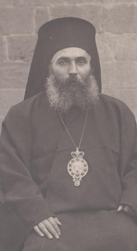 Dragovit bishop Hariton in 1924